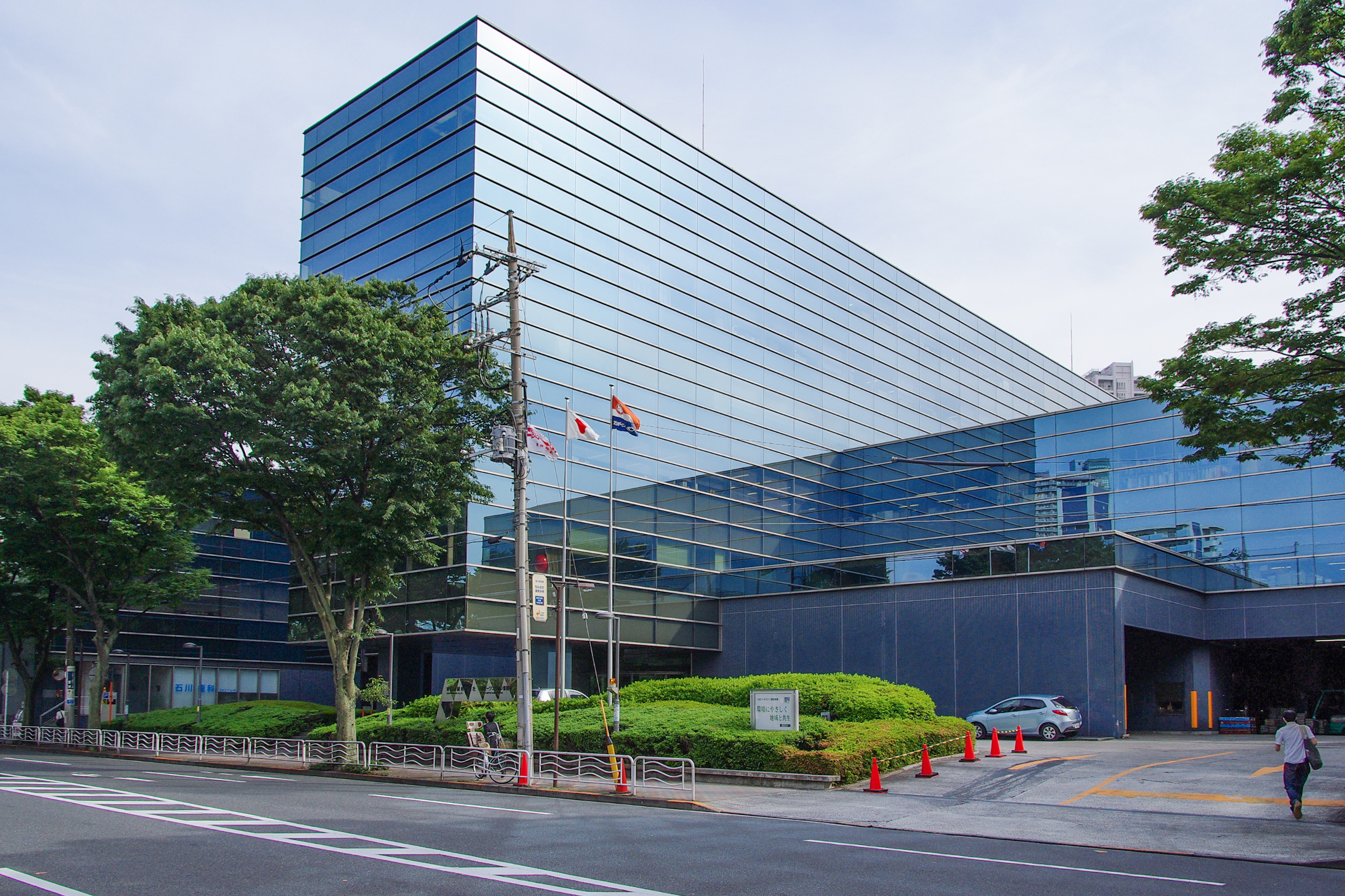 Photograph of S-T Building, the headquarters of Sports Nippon Newspapers Company, Tonichi Printing Company and Tokyo Sports Press Company, in Koto, Tokyo, Japan.